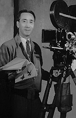 Film director Heinosuke Gosho (1902–81). From a studio still for the 1951 Shin-Tōhō motion picture Wakare Gumo.